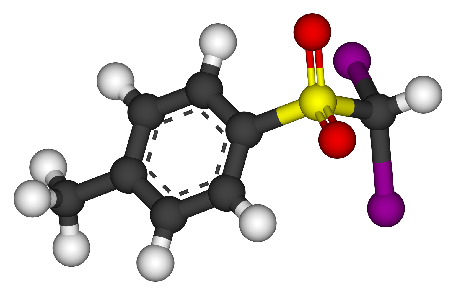 Diiodomethyl-p-tolylsulfone